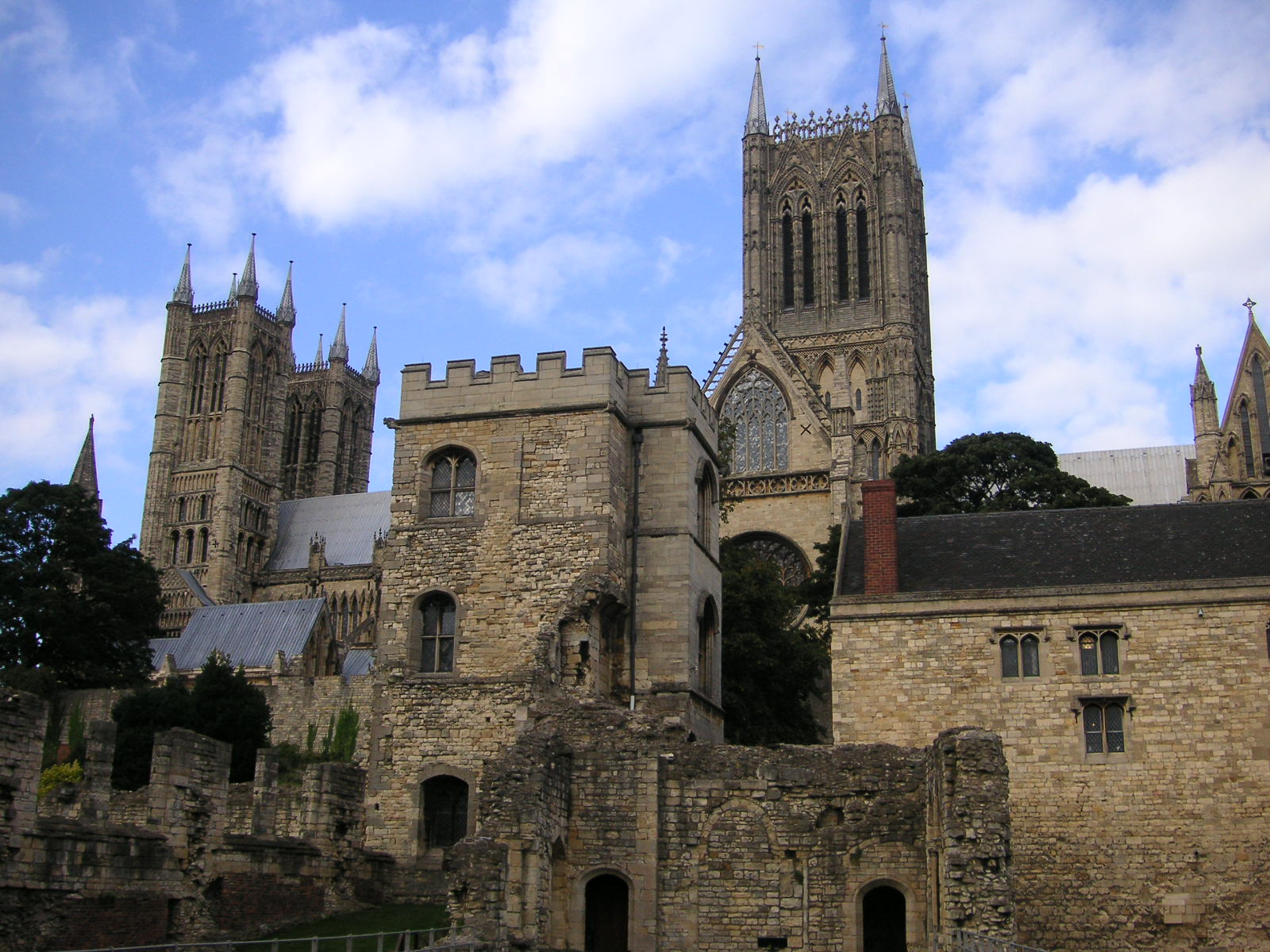 England, Lincoln Cathedral, seen from the ruined Medieval Bishop's Palace to the south.